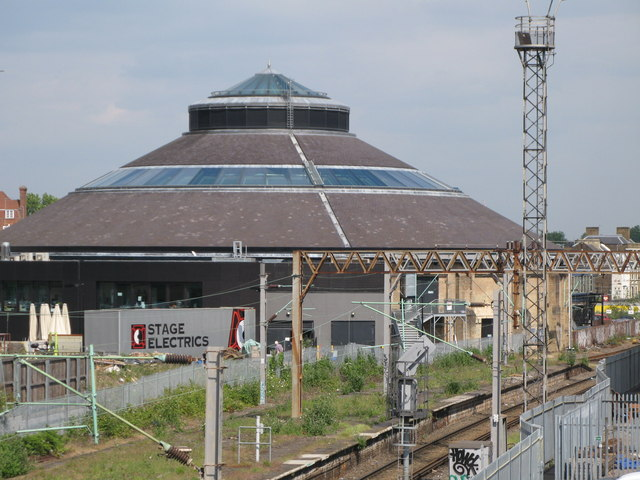 The Roundhouse. See 541283 (photo by Oxyman).